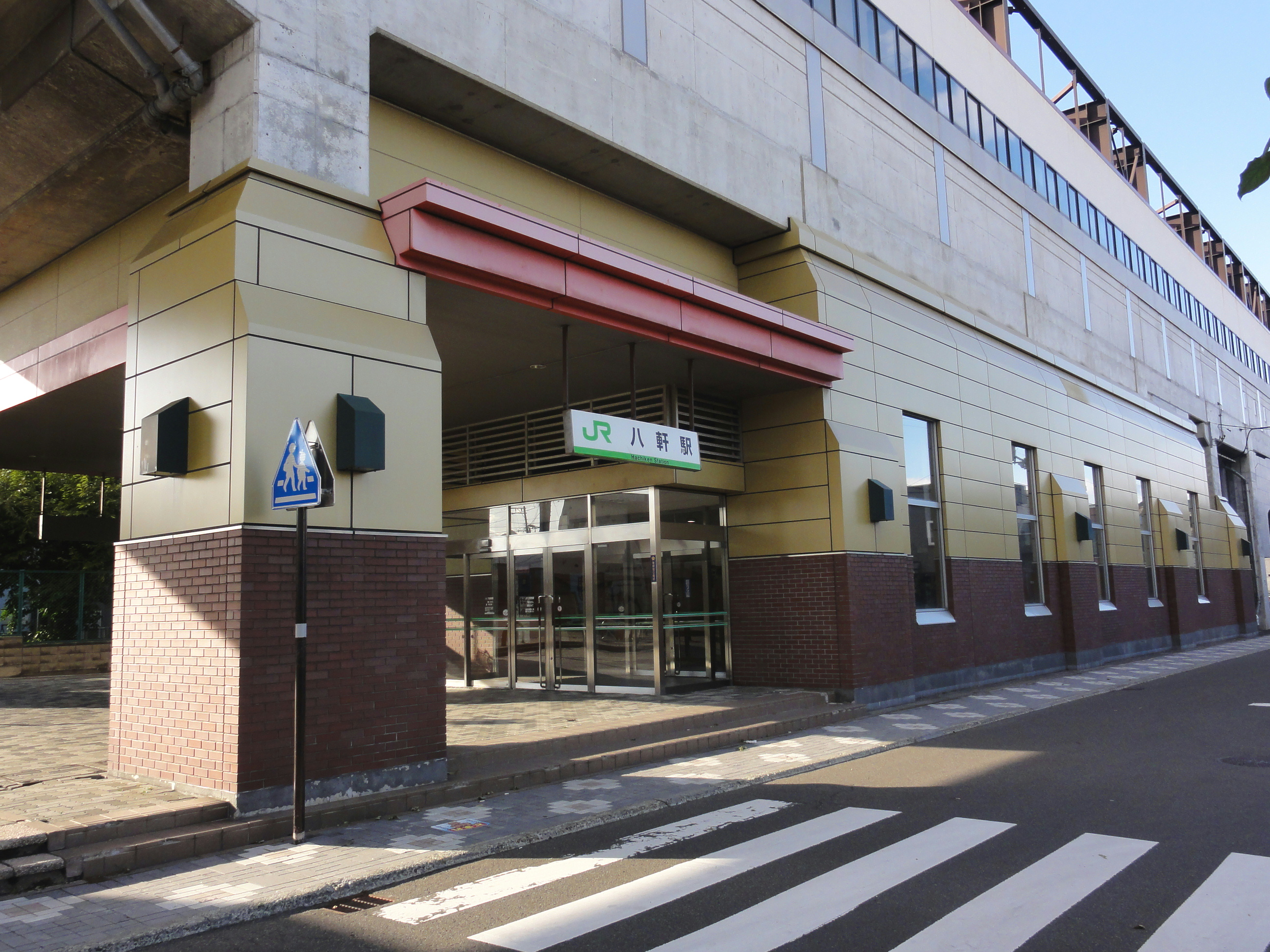 Hachiken Station on the Sasshō Line (Kita-ku, Sapporo, Hokkaido)